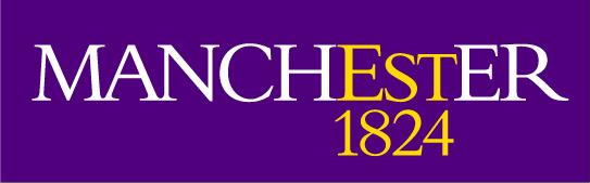 This is a logo of the University of Manchester.